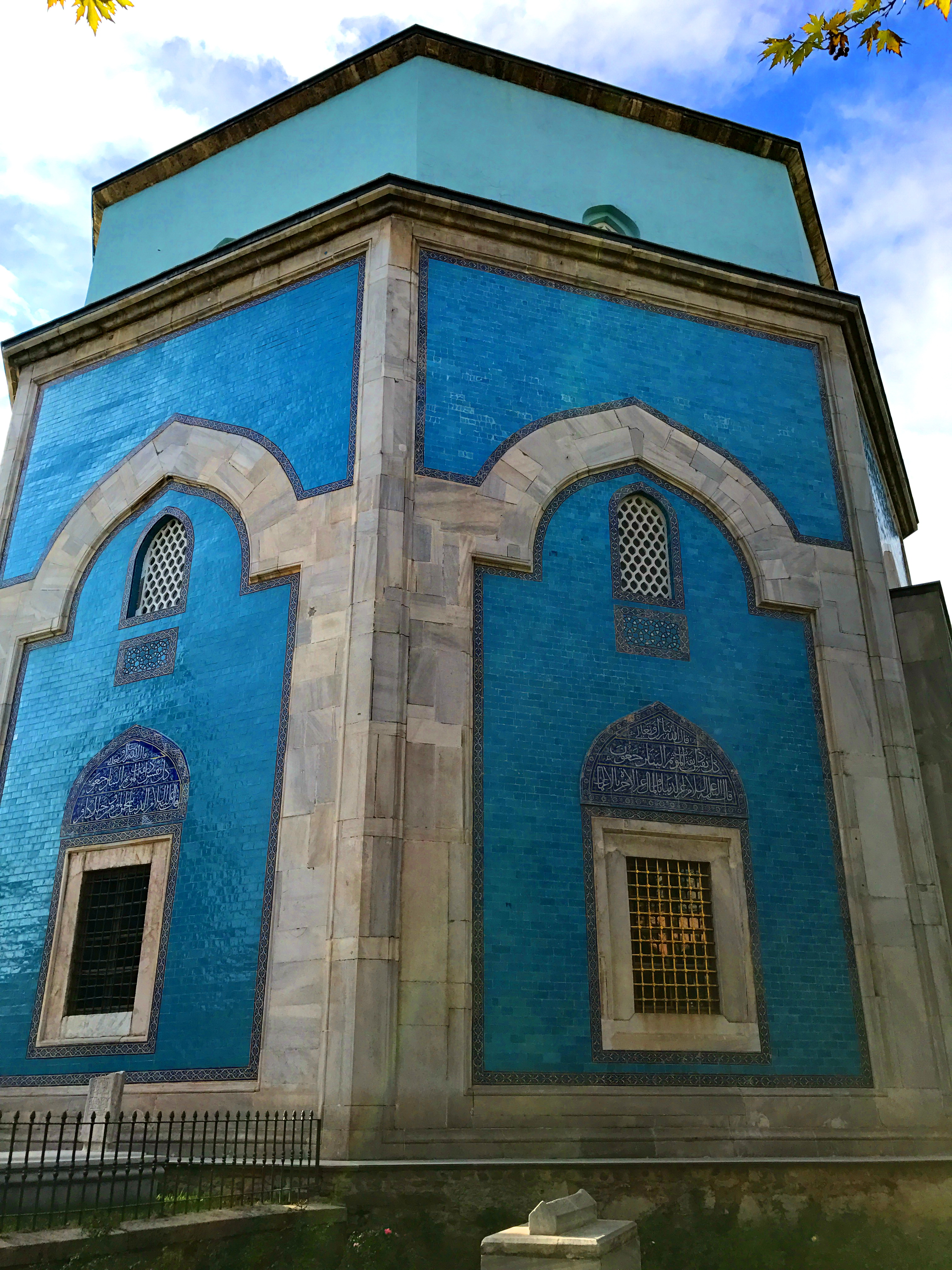 The Green Tomb (Yeşil Türbe) is a mausoleum of the fifth Ottoman Sultan, Mehmed I, in Bursa, Turkey. It was built by Mehmed's son and successor Murad II following the death of the sovereign in 1421. The architect, Hacı Ivaz Pasha designed the tomb and the Yeşil Mosque opposite to it